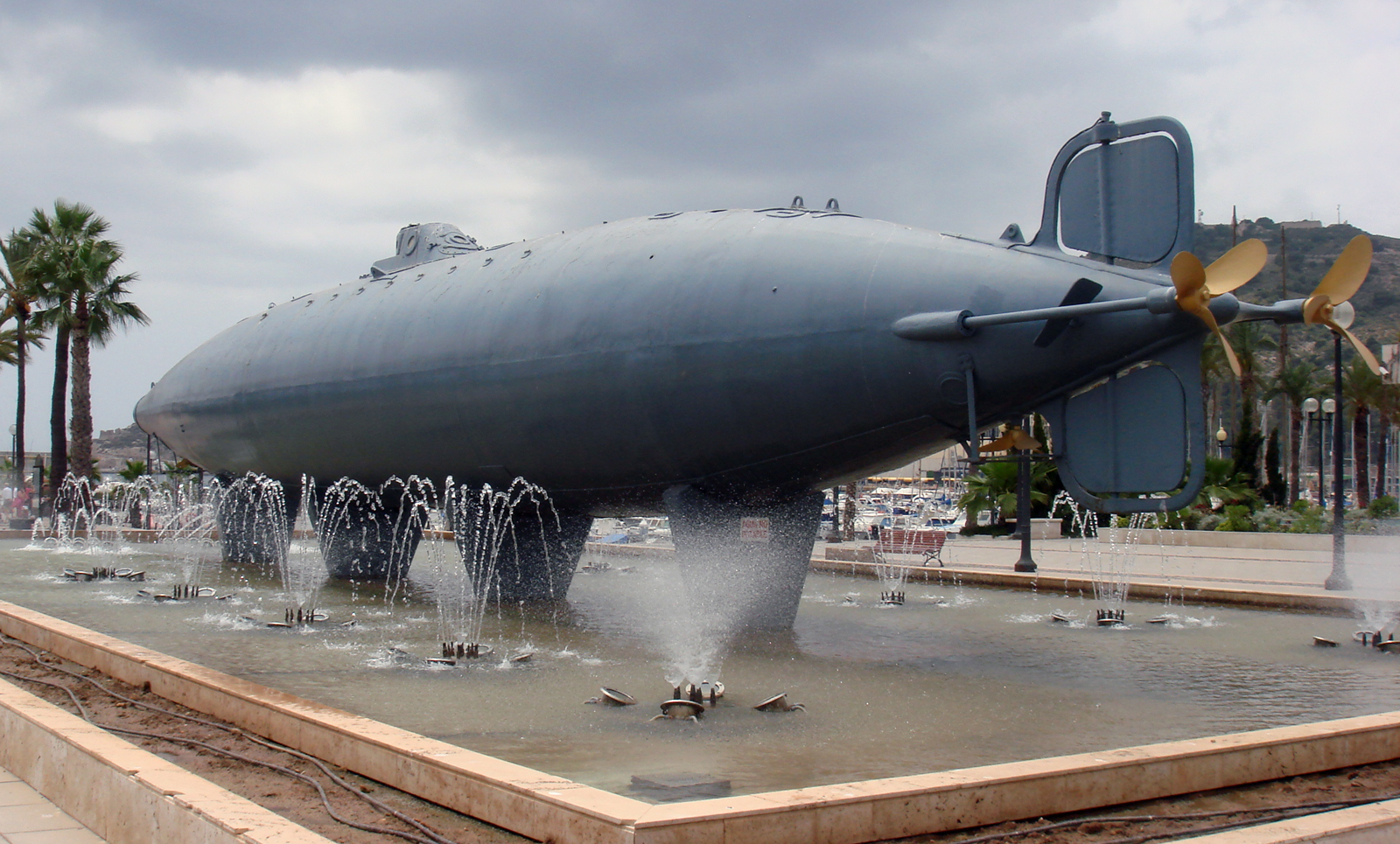 Photograph of the Peral Submarine, viewed from the stern, in the port of Cartagena, Spain in 2007